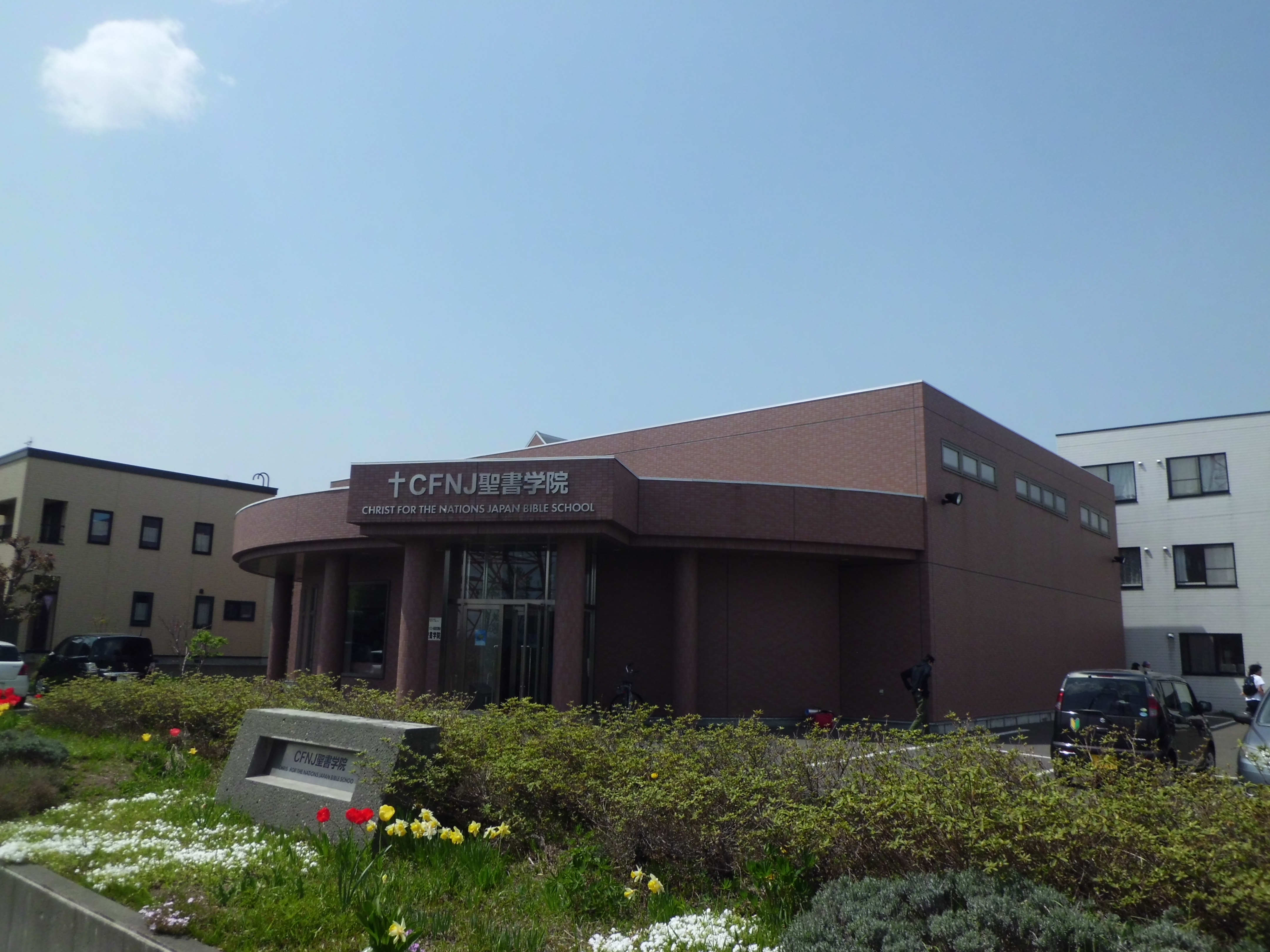 CFNJ Bible School